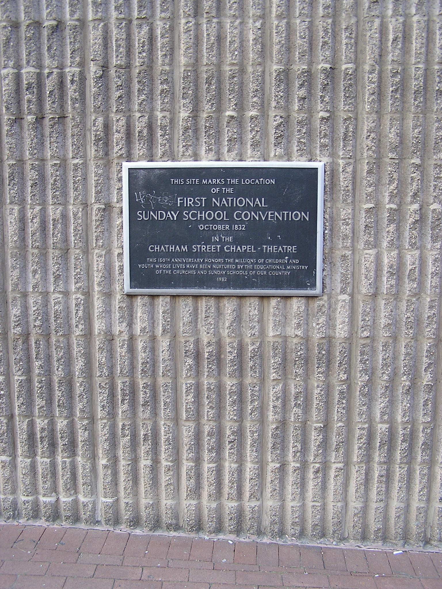 Commemorative plaque at the Metropolitan Correctional Center-New York marking the former location of the Chatham Garden Theatre. The street is actually on a slope.